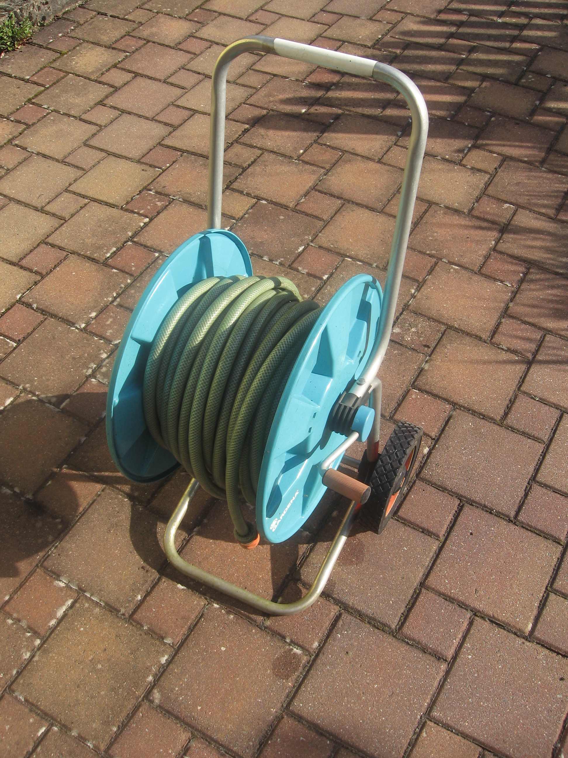 Garden hose on a wheeled reel